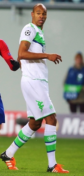 Ronaldo Aparecido Rodrigues